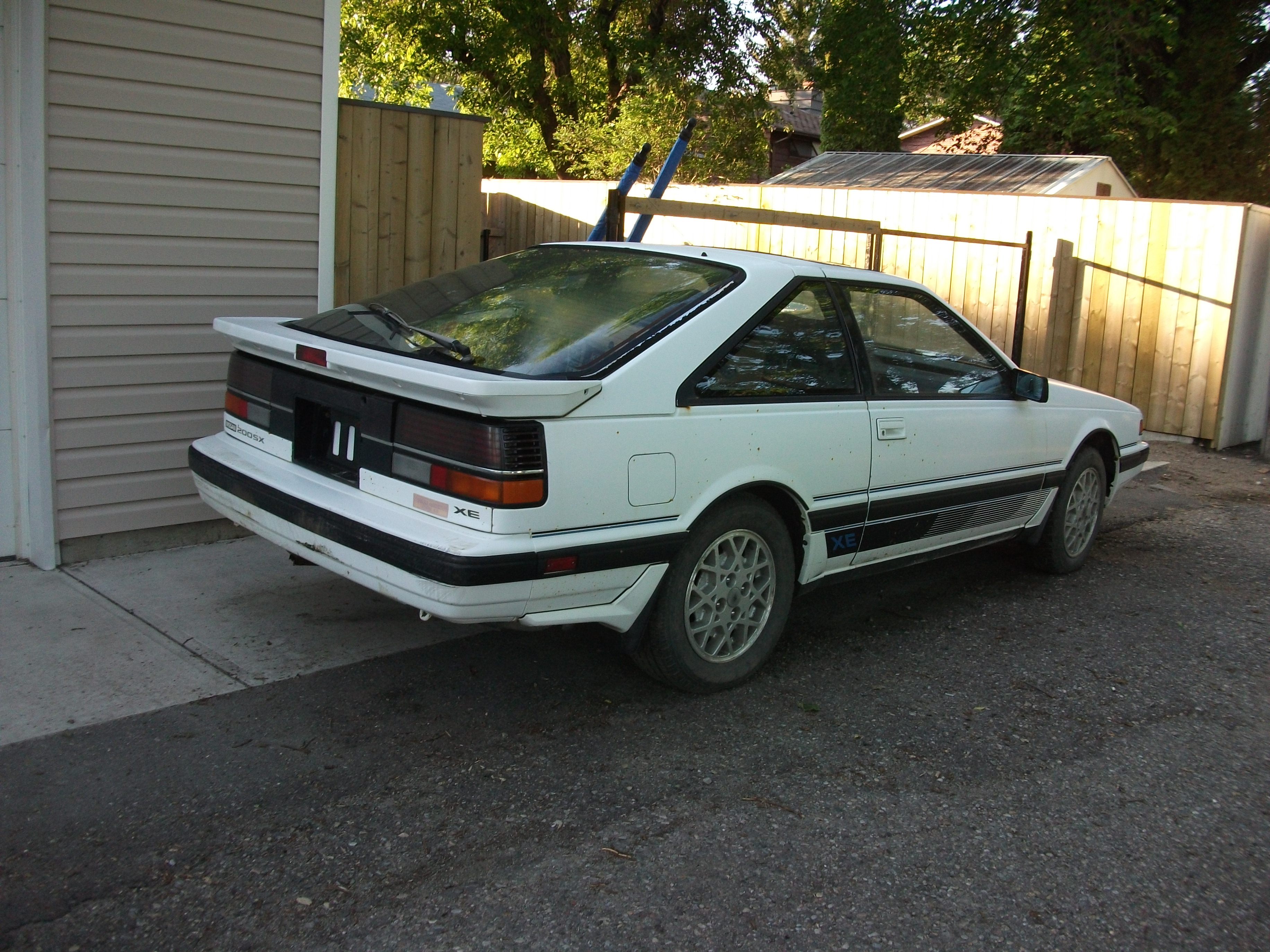 A Nissan 200SX hatchback - S12 generation - known as the Silvia in other markets. Has a 2.0 L SOHC engine (CA20E) four cylinder engine.